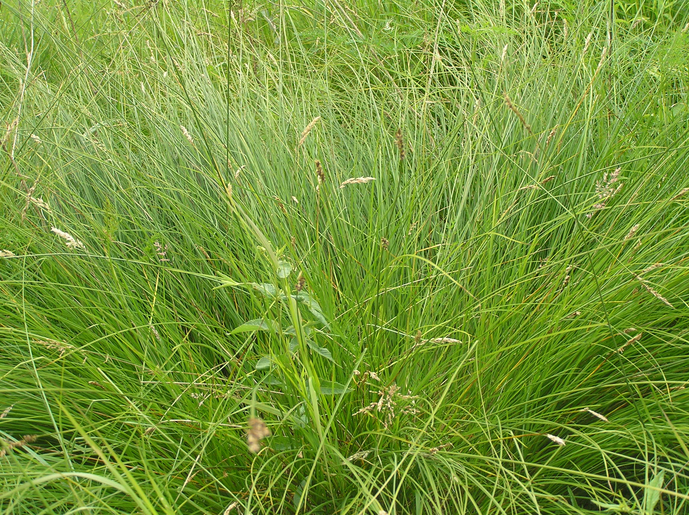 Carex appropinquata, near the pond Malý Karlov, Eastern Bohemia, Czech Republic